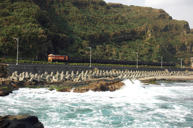 A loaded coal train on Shen'ao Branch Line, Rueifang, Taipei, Taiwan.